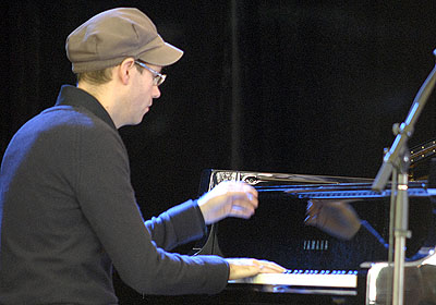 Jazz pianist David Braid